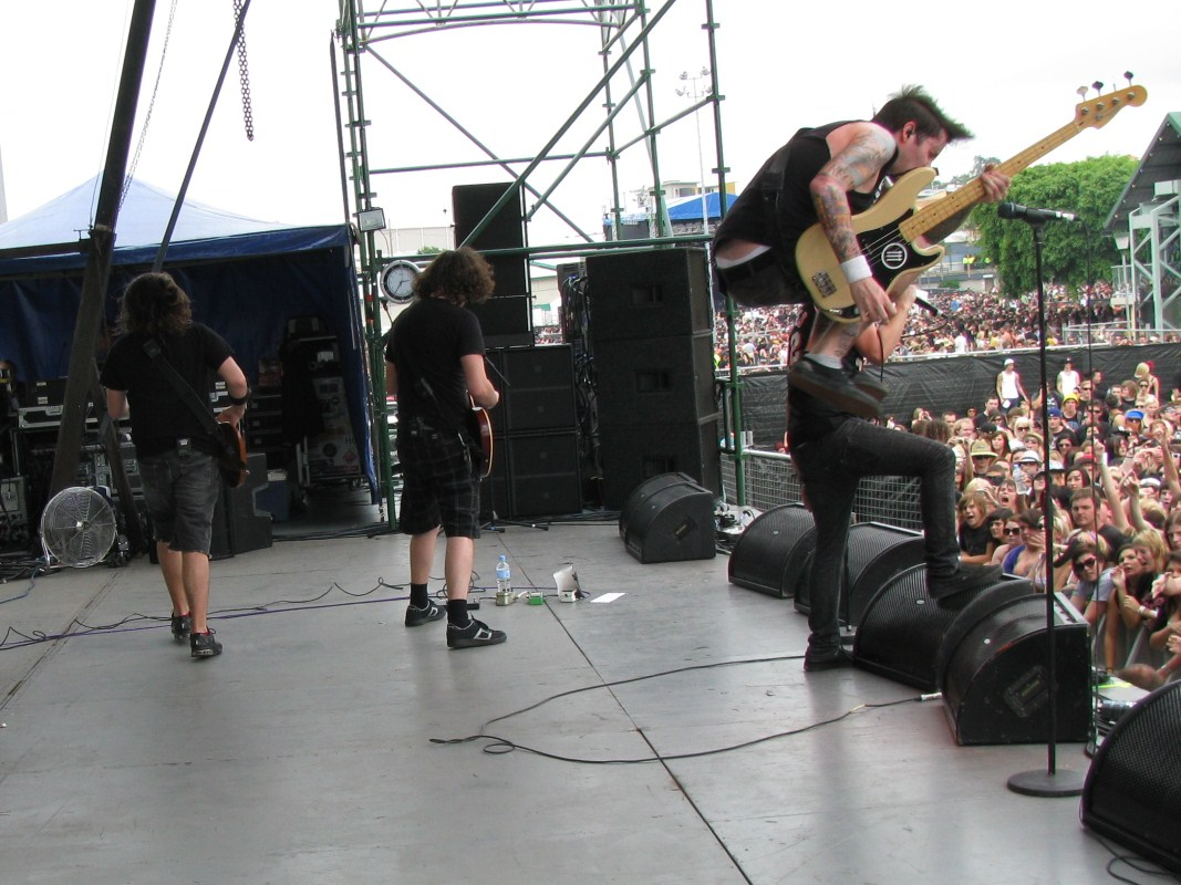 Hamilton takes to the skies as Silverstein plays Brisbane, Australia